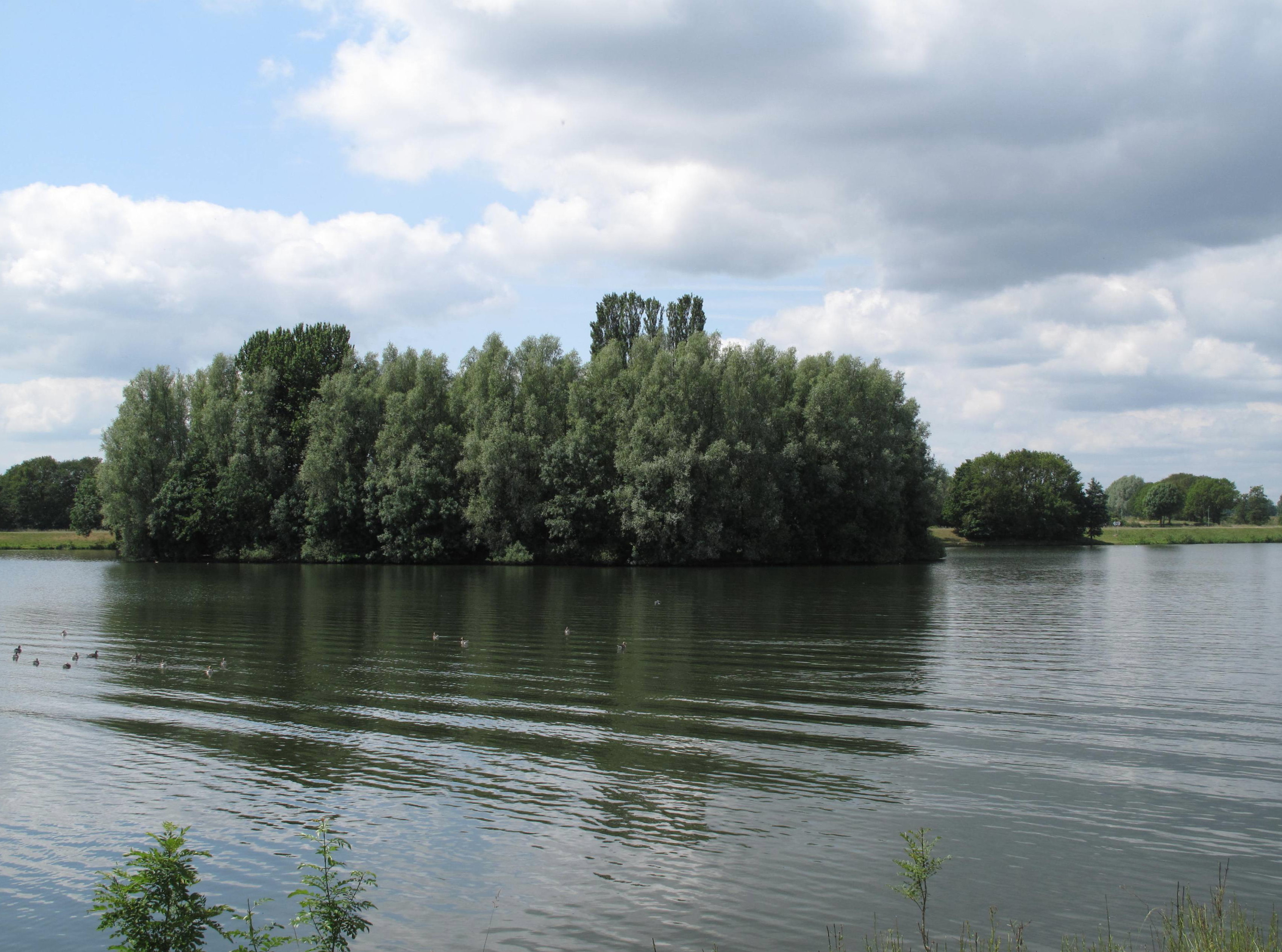 Mookerplas, panorama